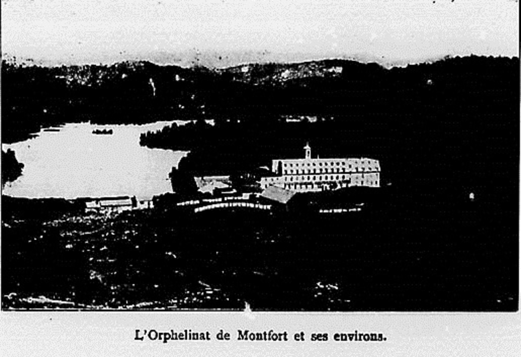 Notre-Dame of Montfort Agricultural Orphanage, dominating lake Chevreuil .